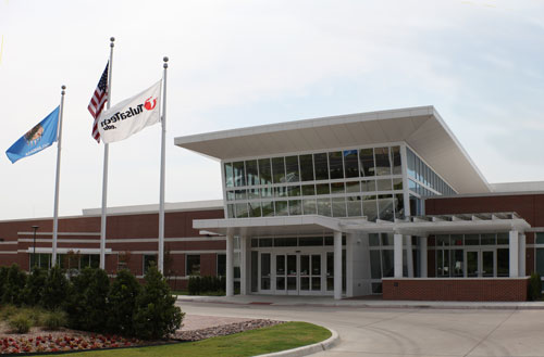 Tulsa Tech's Sand Springs Campus